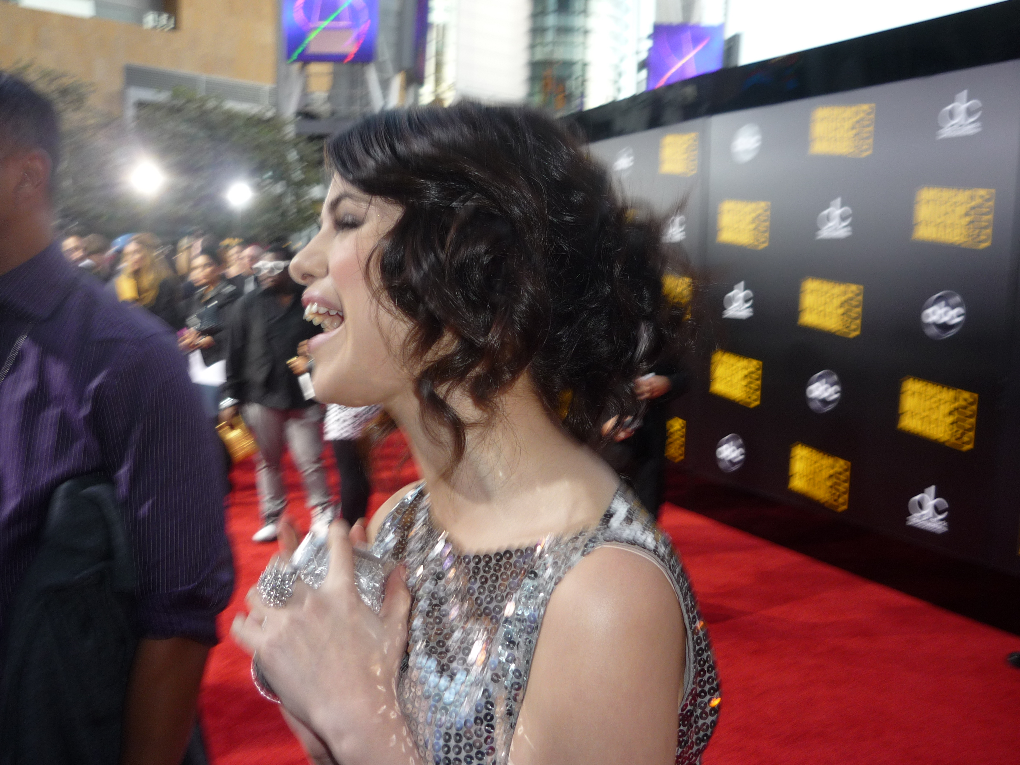 Selena Gomez at the 2009 American Music Awards. Wearing a dress designed by German fashion house Talbot Runhof.